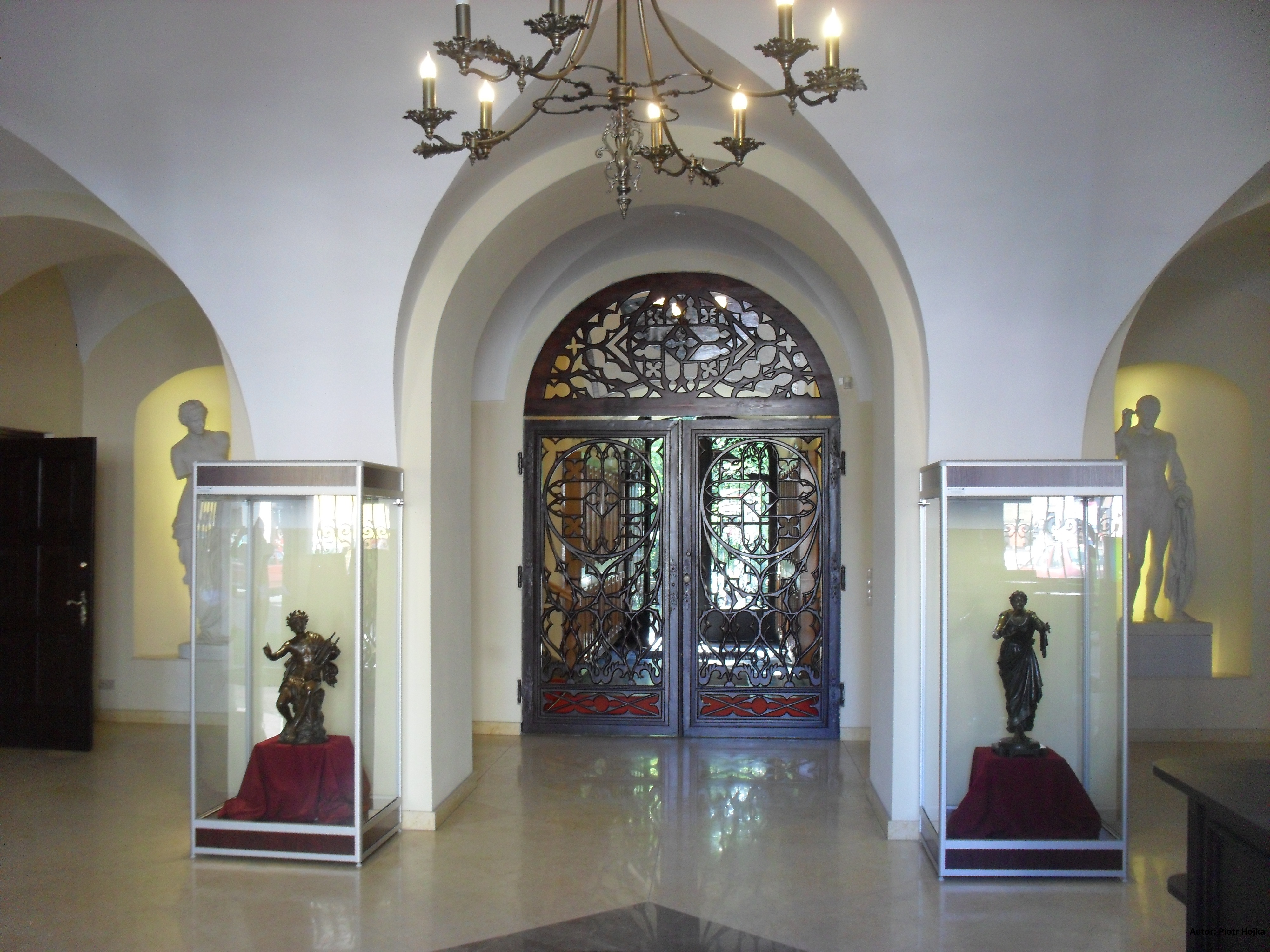 Dietrichstein Palace in Wodzisław Śląski - Hall. Today Museum.